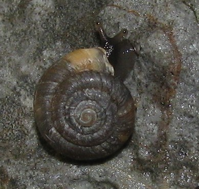 Noricella oreinos (Wagner, 1915) (synonym: Trochulus oreinos oreinos